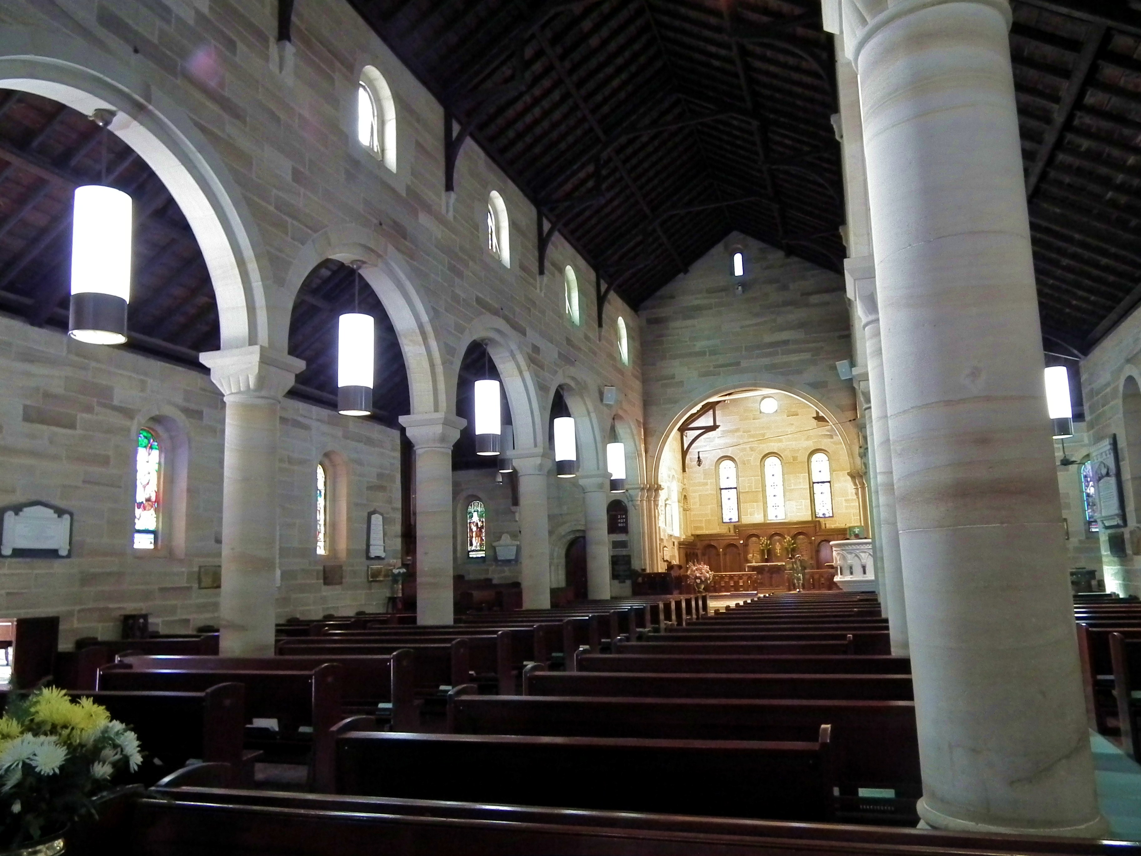 St. John's Anglican Cathedral - Parramatta, New South Wales. The first church was erected on this site in 1803. It is the oldest continual place of worship in Australia. Until 1809 it was the only church in the colony. In 1819, at the suggestion of his wife Elizabeth, Governor Macquarie had the twin towers constructed, modeled on the twin towers of St Mary's Church, Reculver, England. In 1851 the old church was demolished and replaced by a larger building designed by James Houison, but retaining the twin towers from the earlier church. The transepts were added by Edmund Blackett in 1882. The nearby St John's Cemetery is the oldest survivng European burial ground in Australia, with the first internment on January 31st, 1790.